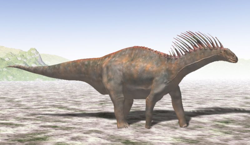 Amargasaurus cazaui, a sauropod from the Early Cretaceous of Argentina. Digital.